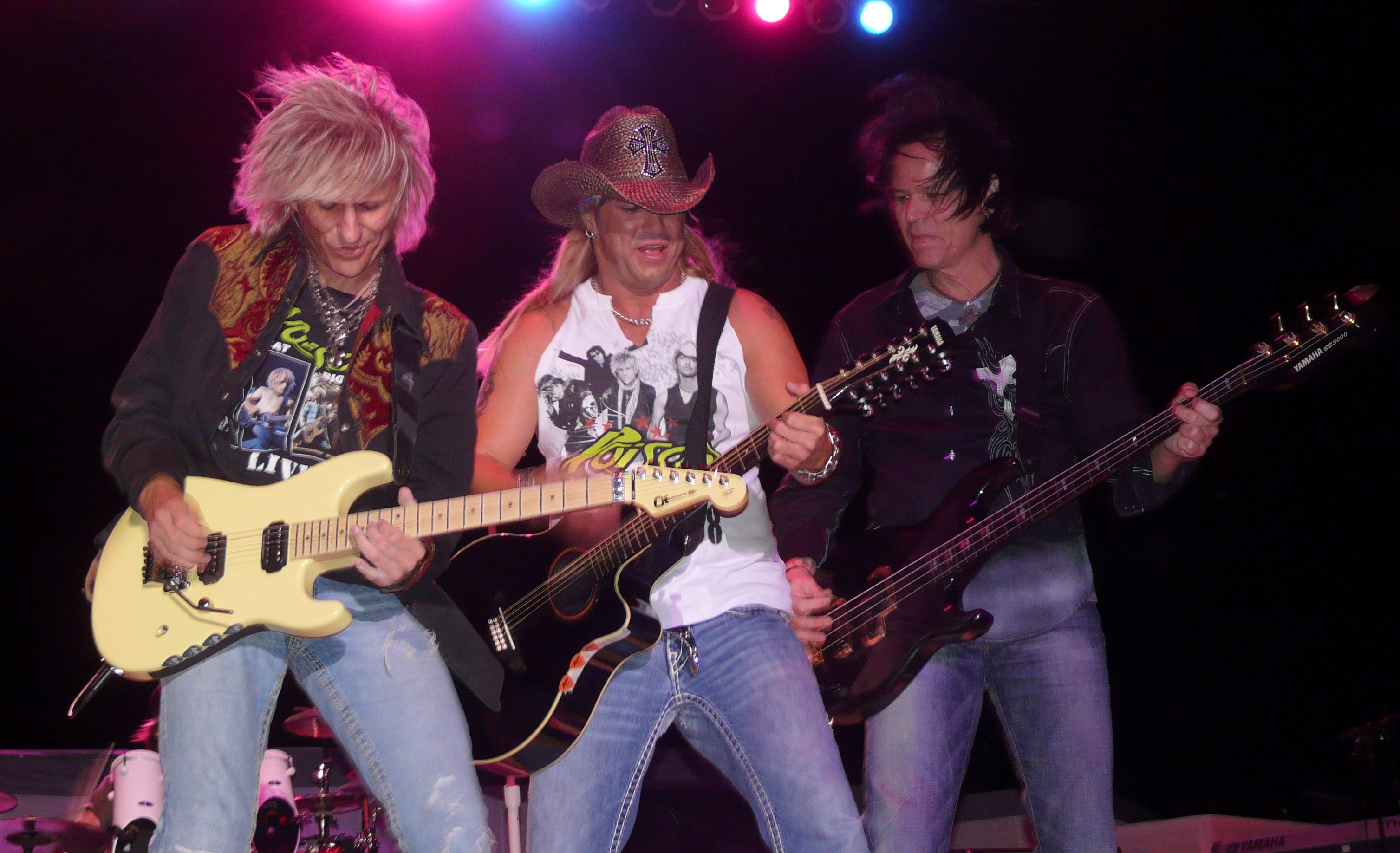 POISON at the Moondance Jam